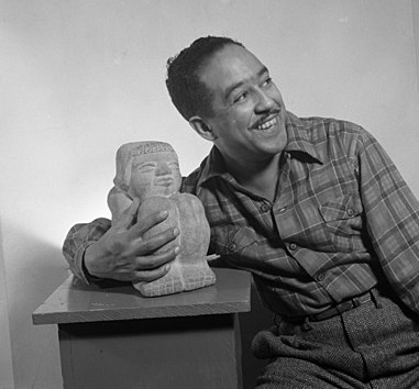 Portrait of American writer and activist Langston Hughes